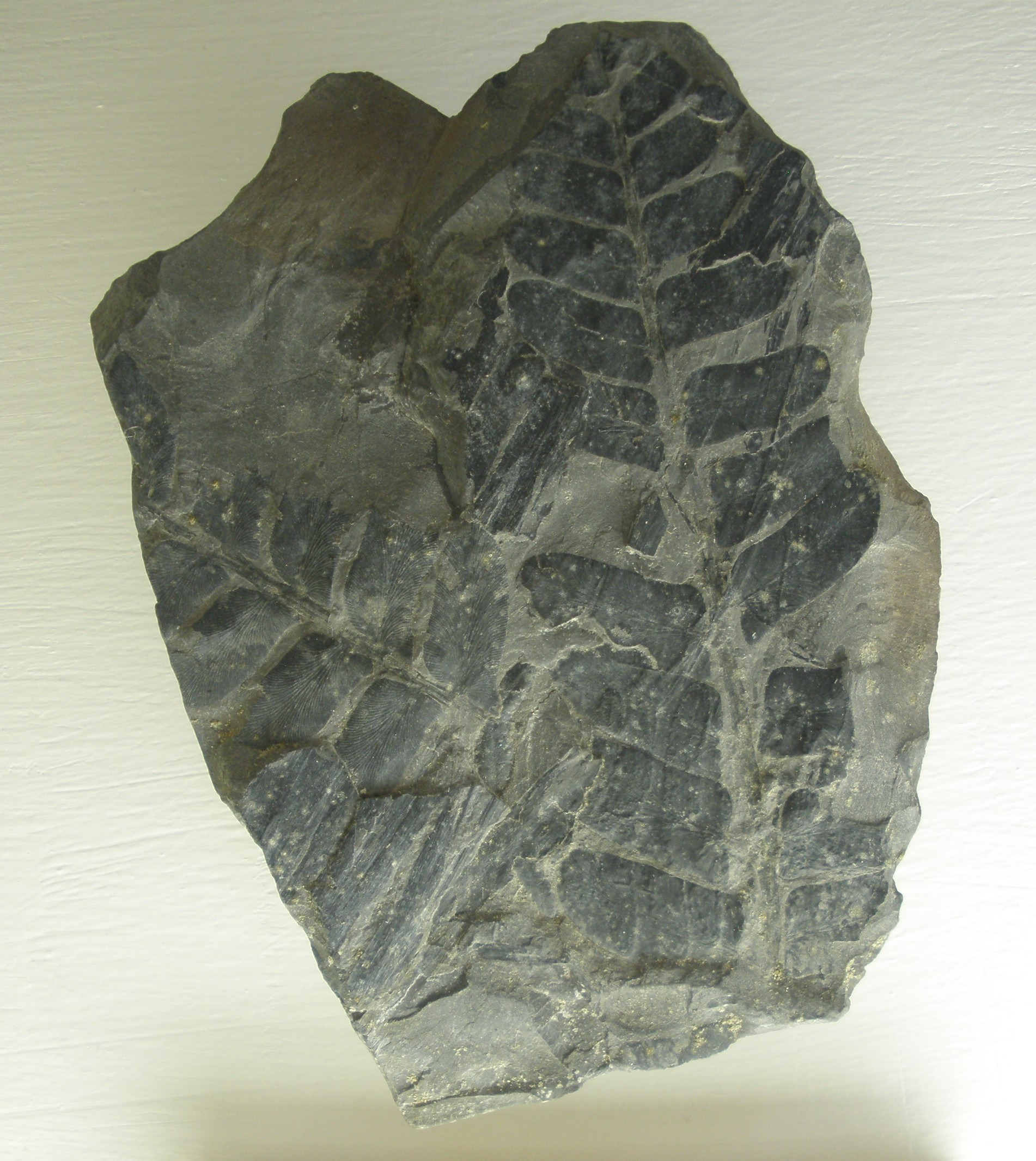 Took the photo at Museo di Storia Naturale di Verona